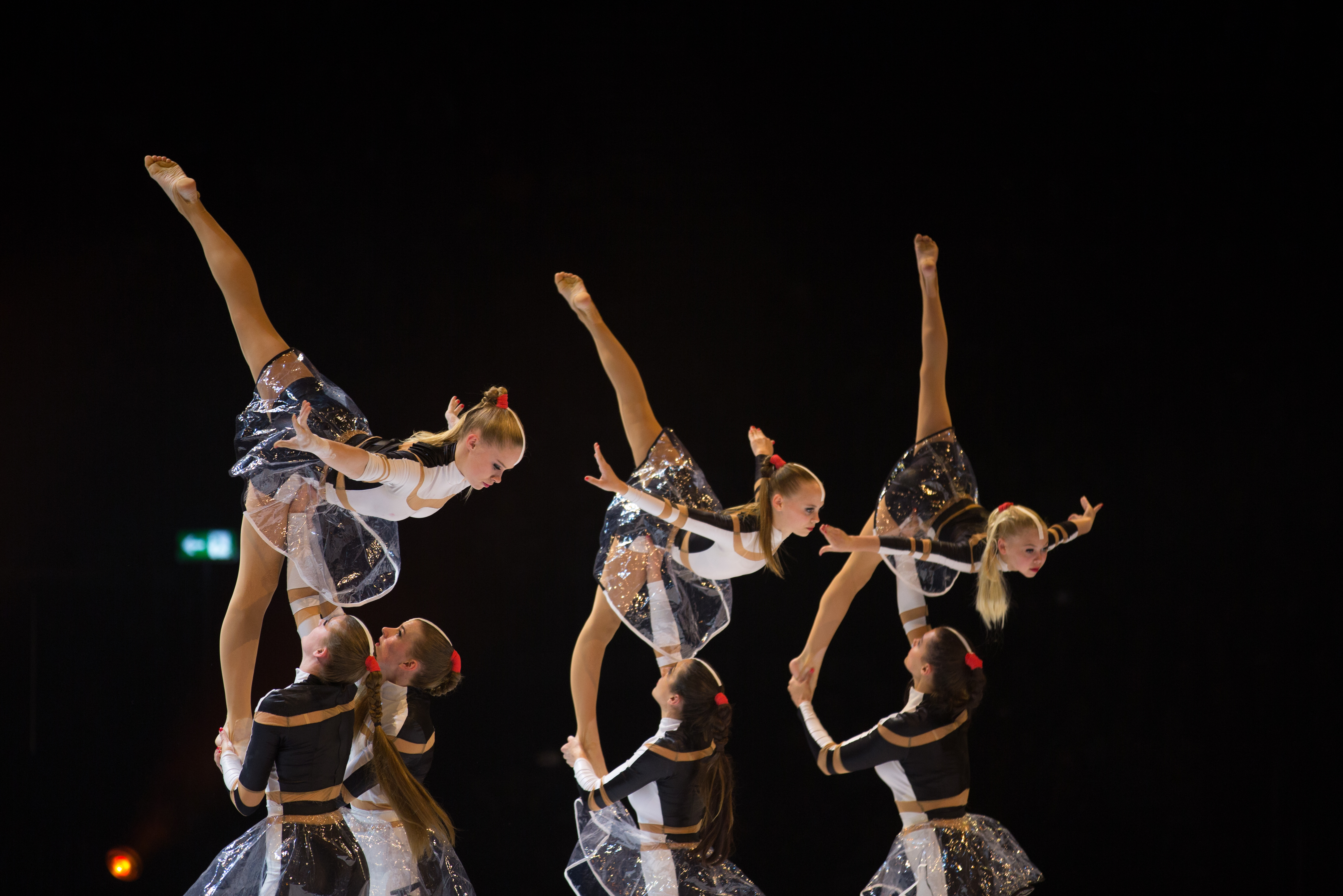 Turnfestgala II of the Internationales Deutsches Turnfest 2017 in Berlin on 05 June at Mercedes-Benz-Arena